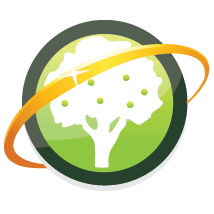 Wikitree logo